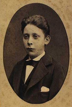 Danish architect Jesper Tvede (1879-1934)